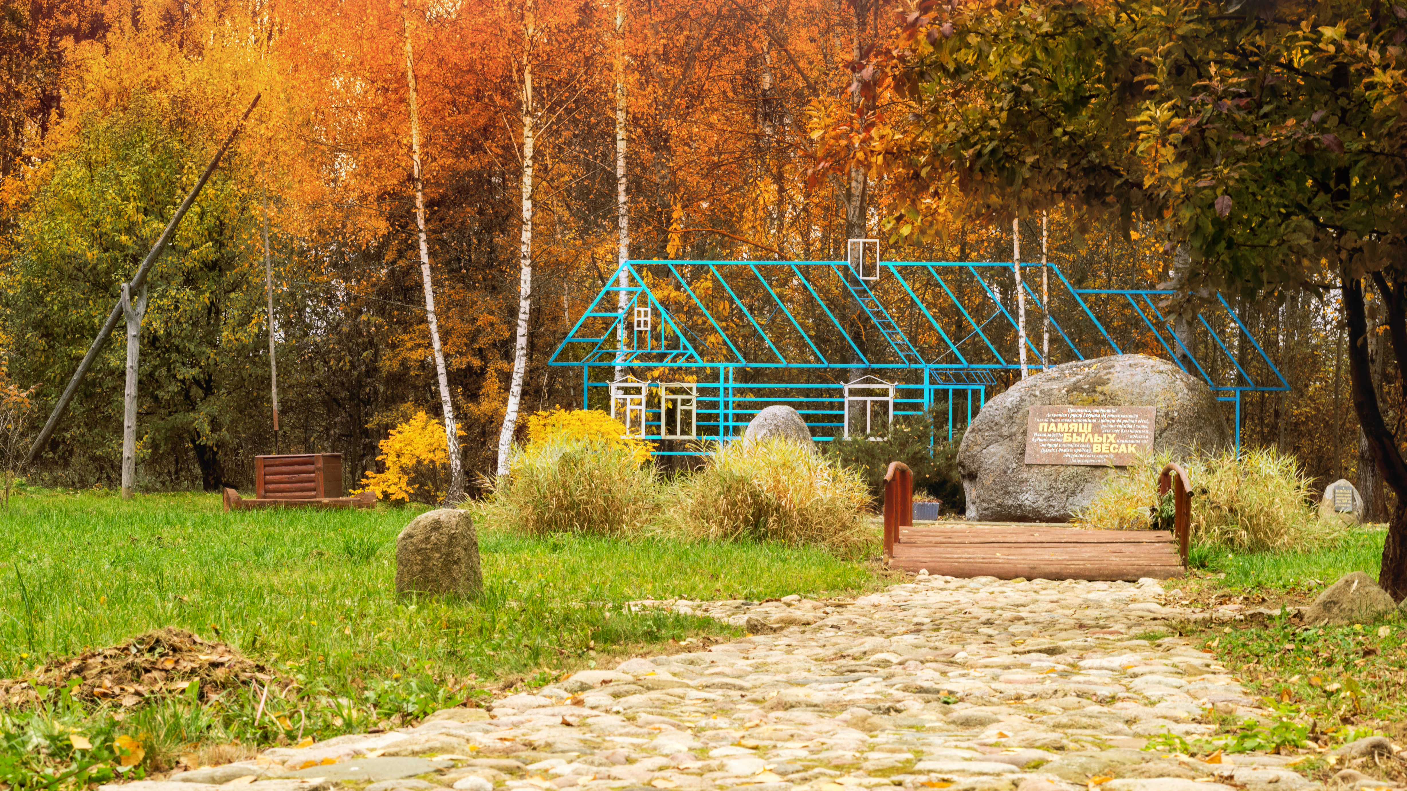 Memories of the disappeared 1